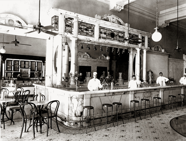 Local call number: RC05862 Title: The Palace Soda Fountain: Tampa, Florida Date: ca. 1925 Photographer: Photographic Collection" AND photographer:"Fishbaugh, W. A.(William A.), b. ca. 1873"&searchbox=1&query=Fishbaugh, W. A.(William A.), b. ca. 1873&year=&gallery=0&search-type= Physical descrip: 1 photoprint - b&w - 8 x 10 in. Series Title: Repository: 500 S. Bronough St., Tallahassee, FL 32399-0250 USA. Contact: 850.245.6700. Persistent URL